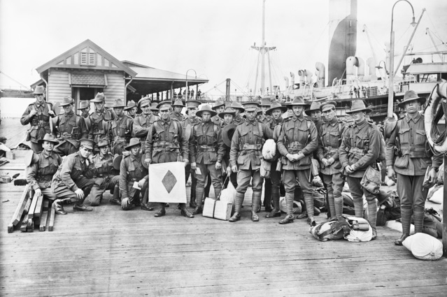 The 12th batch of reinforcements for the Australian 2nd Pioneer Battalion prior to embarkation on HMAT Aeneas (A60) at Port Melbourne, 30 October 1917